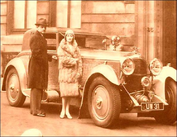 Bentley Speed Six (#KR2699) Gurney Nutting Coupé. One of my favourite vintage Bentley's, unfortunately not heard of since 1935. The people standing next to the car are most likely the proud owner Mr. William John Hargrave-Pawson and his wife (Judith Elizabeth Tisdall). Bentley Speed Six coupé Weymann body by J Gurney Nutting 1930 Original coachwork Delivered November 1929 Chassis KR2699 12 ft wheelbase Engine SB2759 Speed Six Reg UW 31 Source of data—Vintage Bentleys